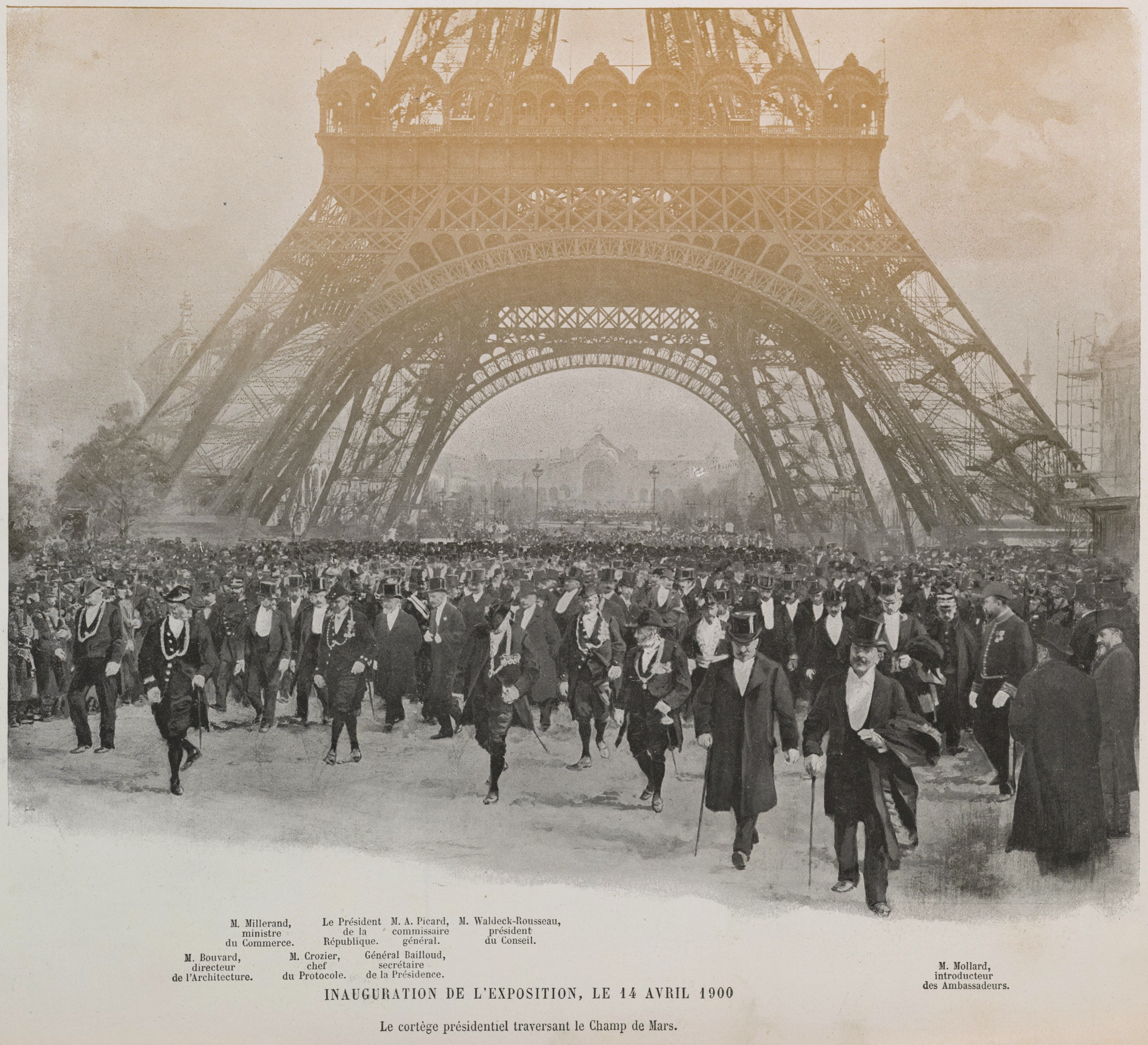 Opening ceremony of the 1900 Paris World Fair. President Emile Loubet is represented here among other members of the government.